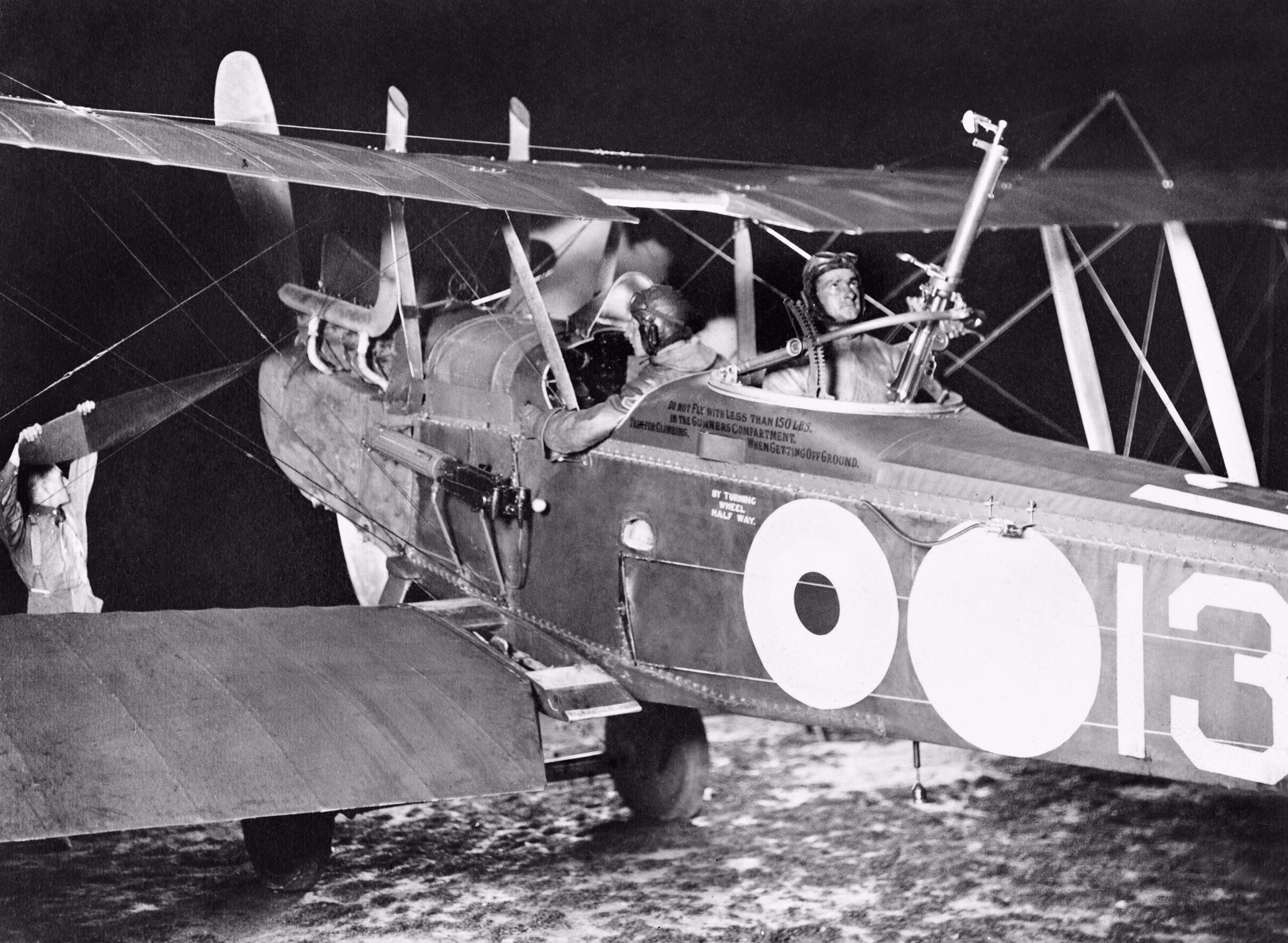 R.E.8 of No 69 (later No 3) Squadron, Australian Flying Corps preparing to set out on a night bombing operation from Savy near Arras